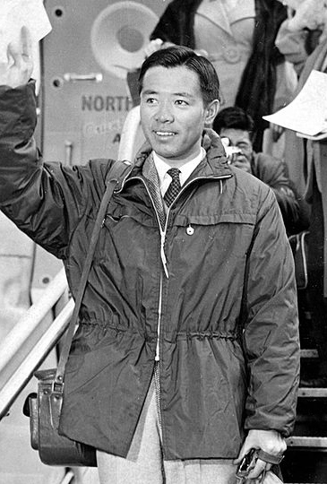 Chiharu Igaya is seen upon arrival at Tokyo International Airport after winning the Silver medal in men's slalom at the Cortina d'Ampezzo Olympic, on March 28, 1956 in Tokyo, Japan